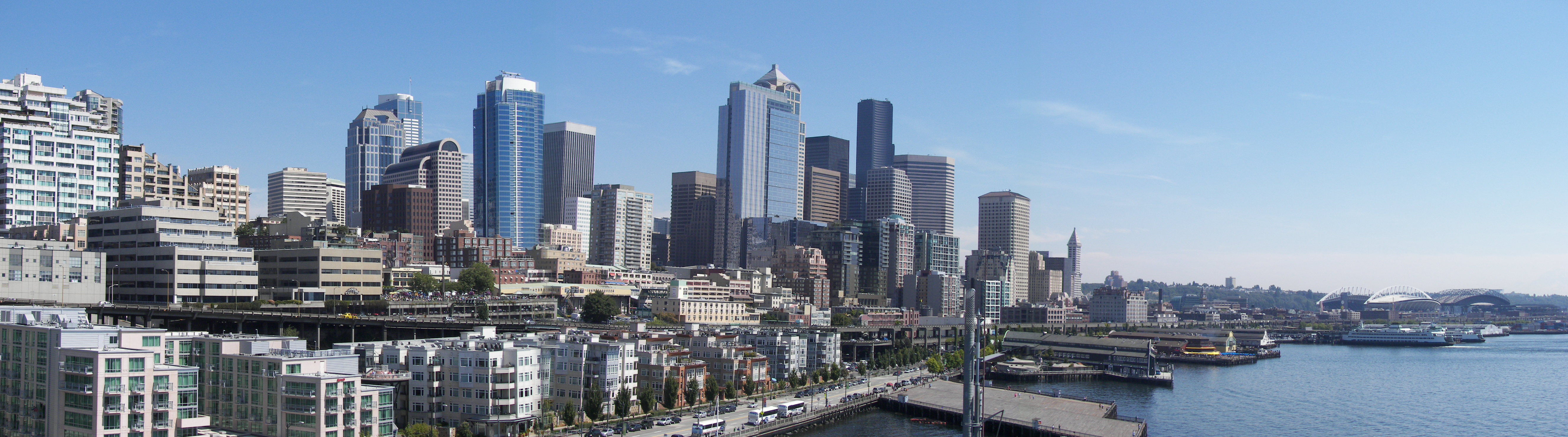 Panoramic of Downtown Seattle from a ship in Pier 66.